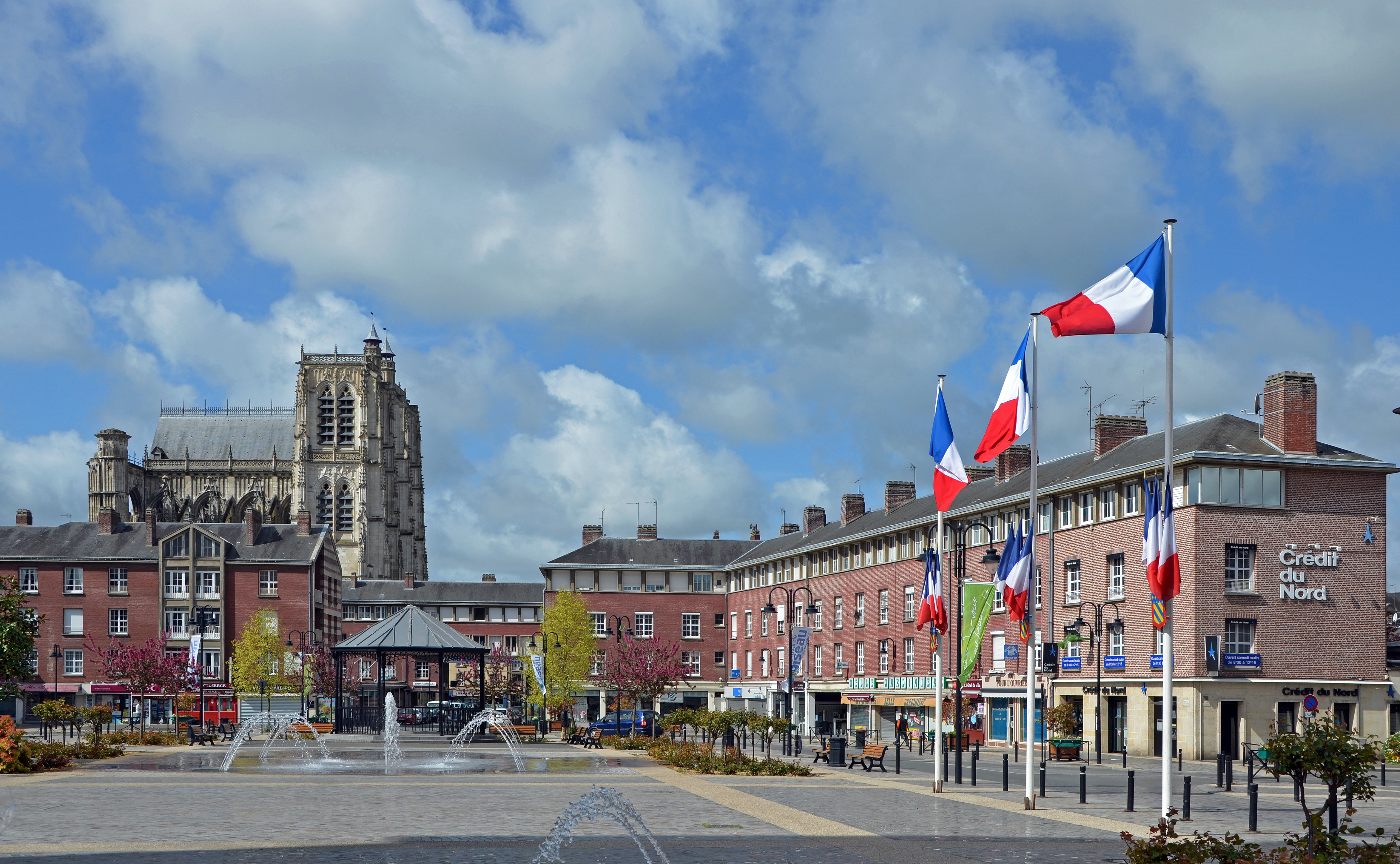 Place Max Lejeune in Abbeville, Somme, France